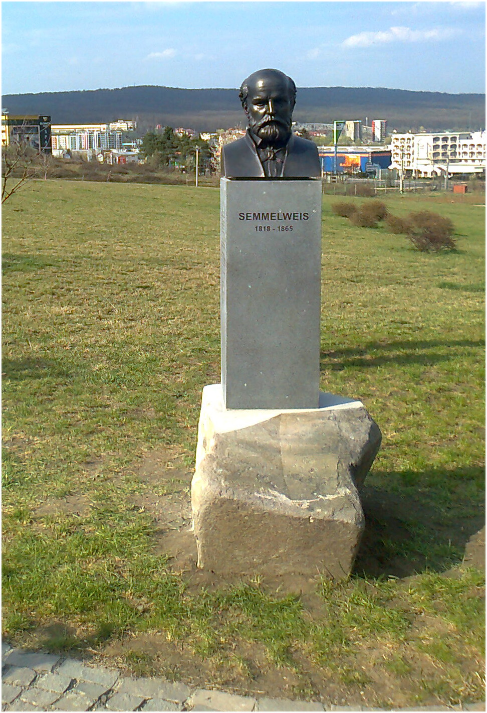 Bust of Ignác Semmelweis at Tg. Mures Campus of Sapientia Hungarian University of Transylvania